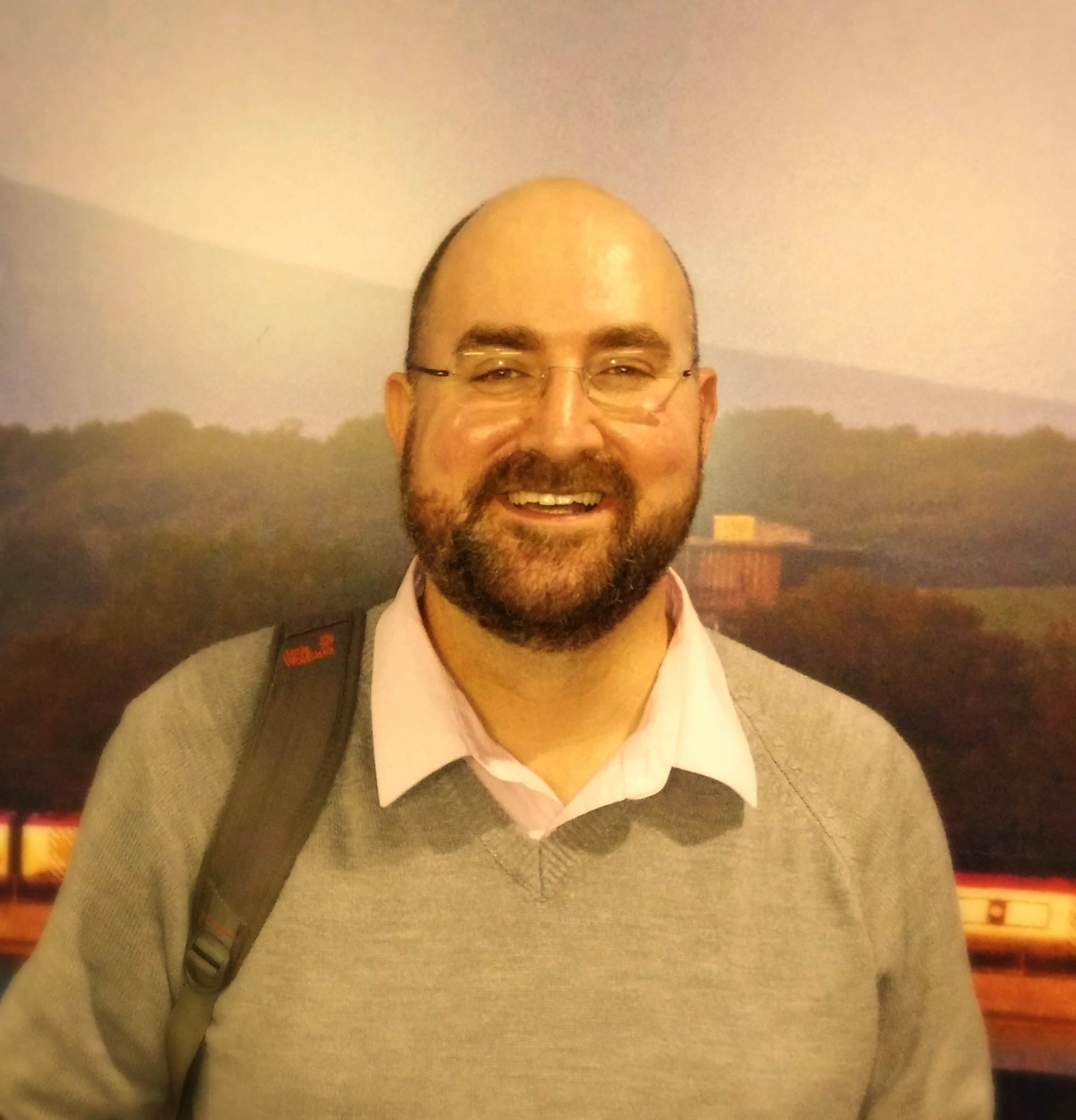 Paul du Plessis, law historian. Taken at London Euston train station.